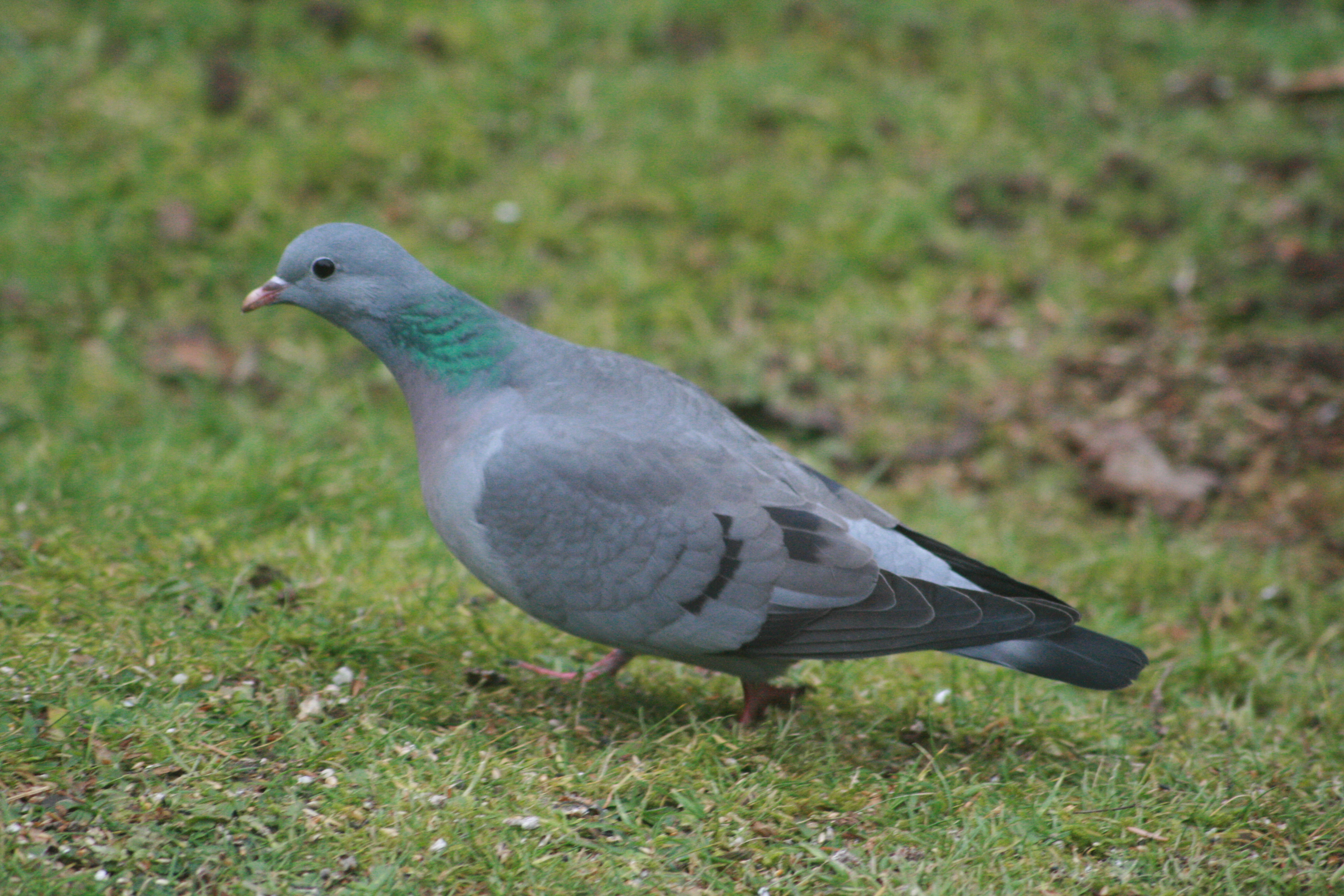 Stock Dove